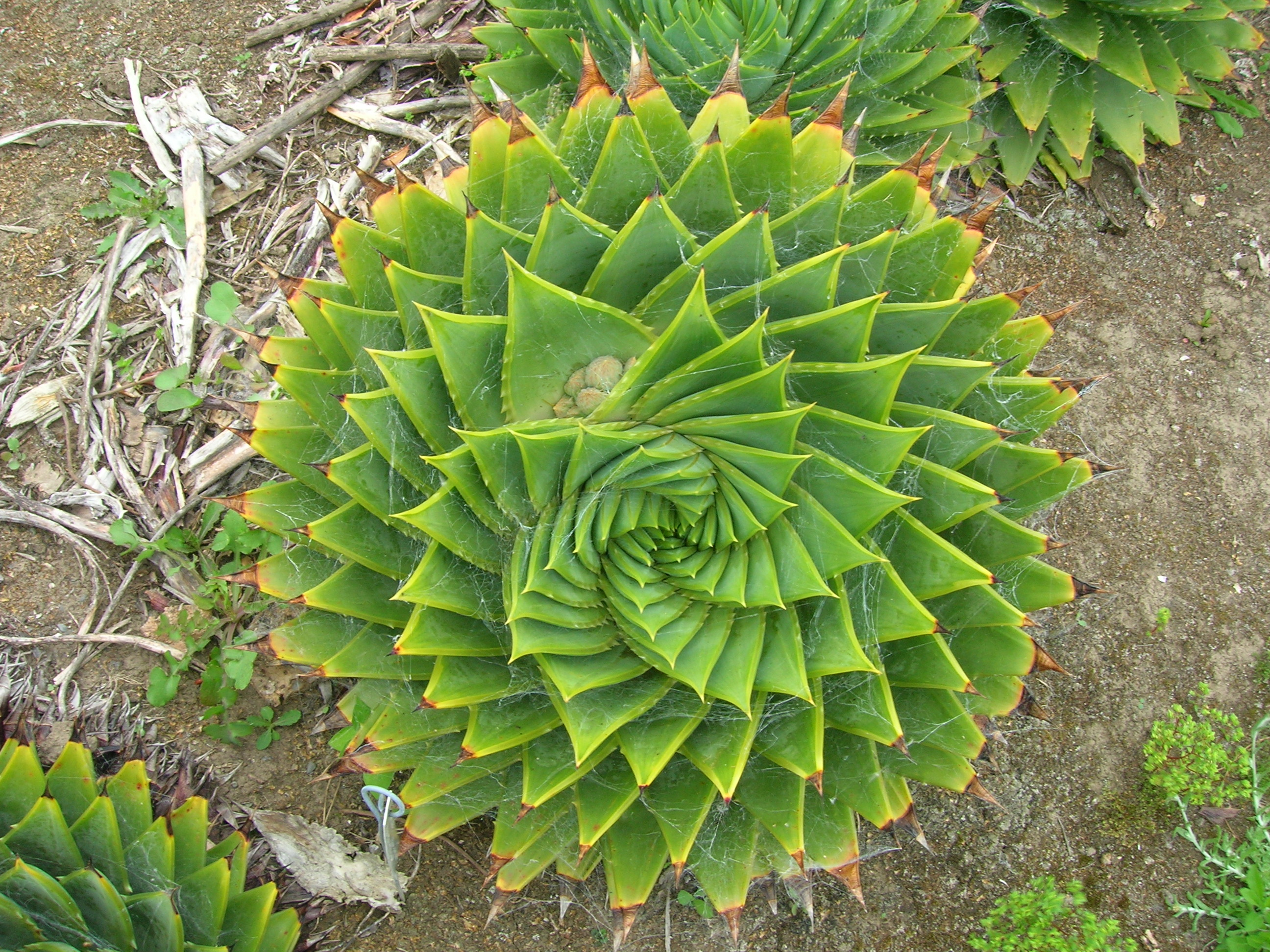 Aloe polyphylla Schönland ex Pillans Asphodelaceae Also placed in: Aloaceae